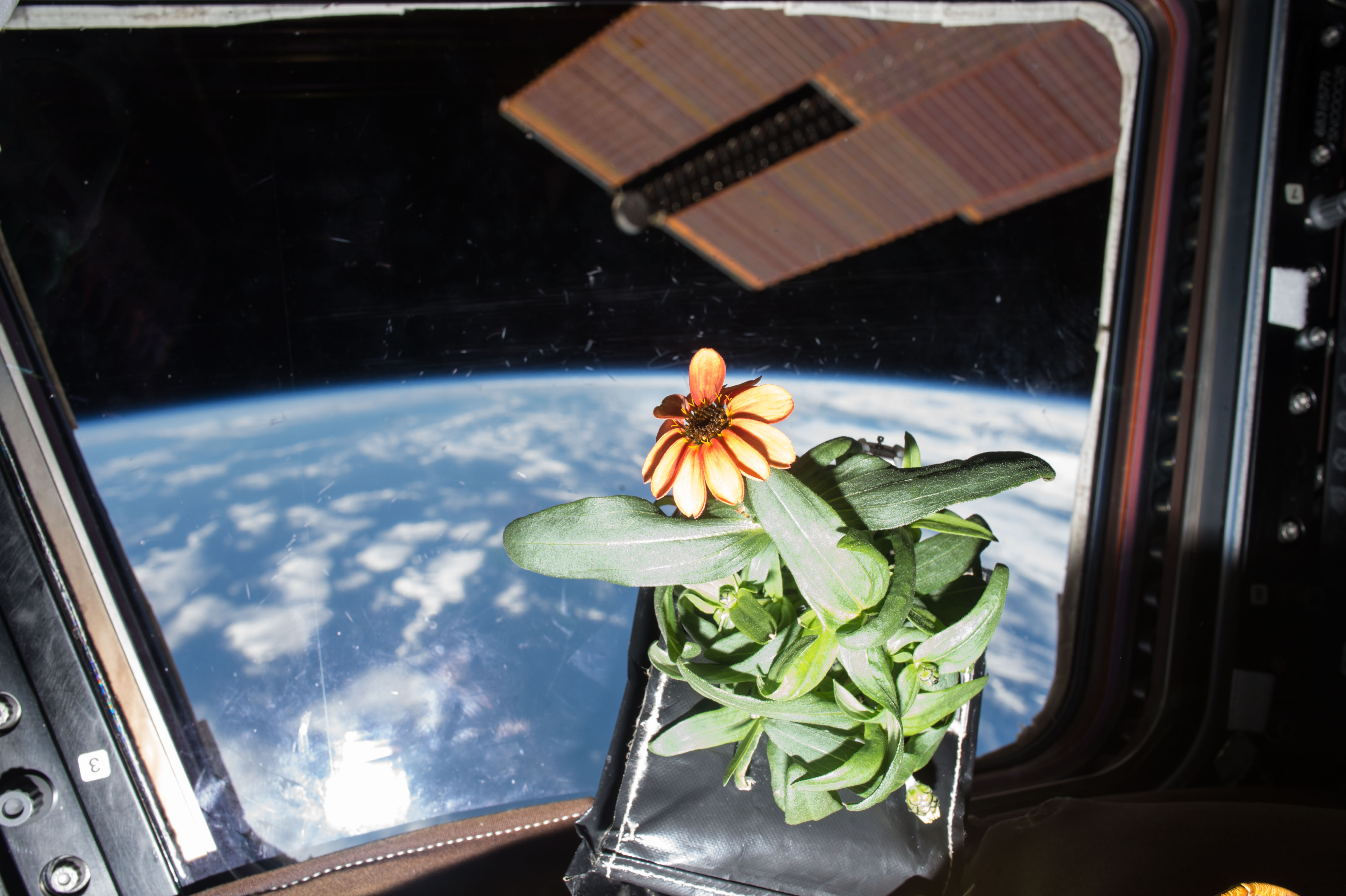 Photos of a Zinnia flower grown inside the Veggie facility onboard the International Space Station. This flowering crop experiment began on Nov. 16, 2015, when NASA astronaut Kjell Lindgren activated the Veggie system and its rooting "pillows" containing zinnia seeds. The challenging process of growing the zinnias provided an exceptional opportunity for scientists back on Earth to better understand how plants grow in microgravity, and for astronauts to practice doing what they’ll be tasked with on a deep space mission: autonomous gardening. The first flowers grown from seed in space happened before Mir, on Salyut-6 in 1982. Russian and American scientists have been doing plant research in space since the late 1970's.